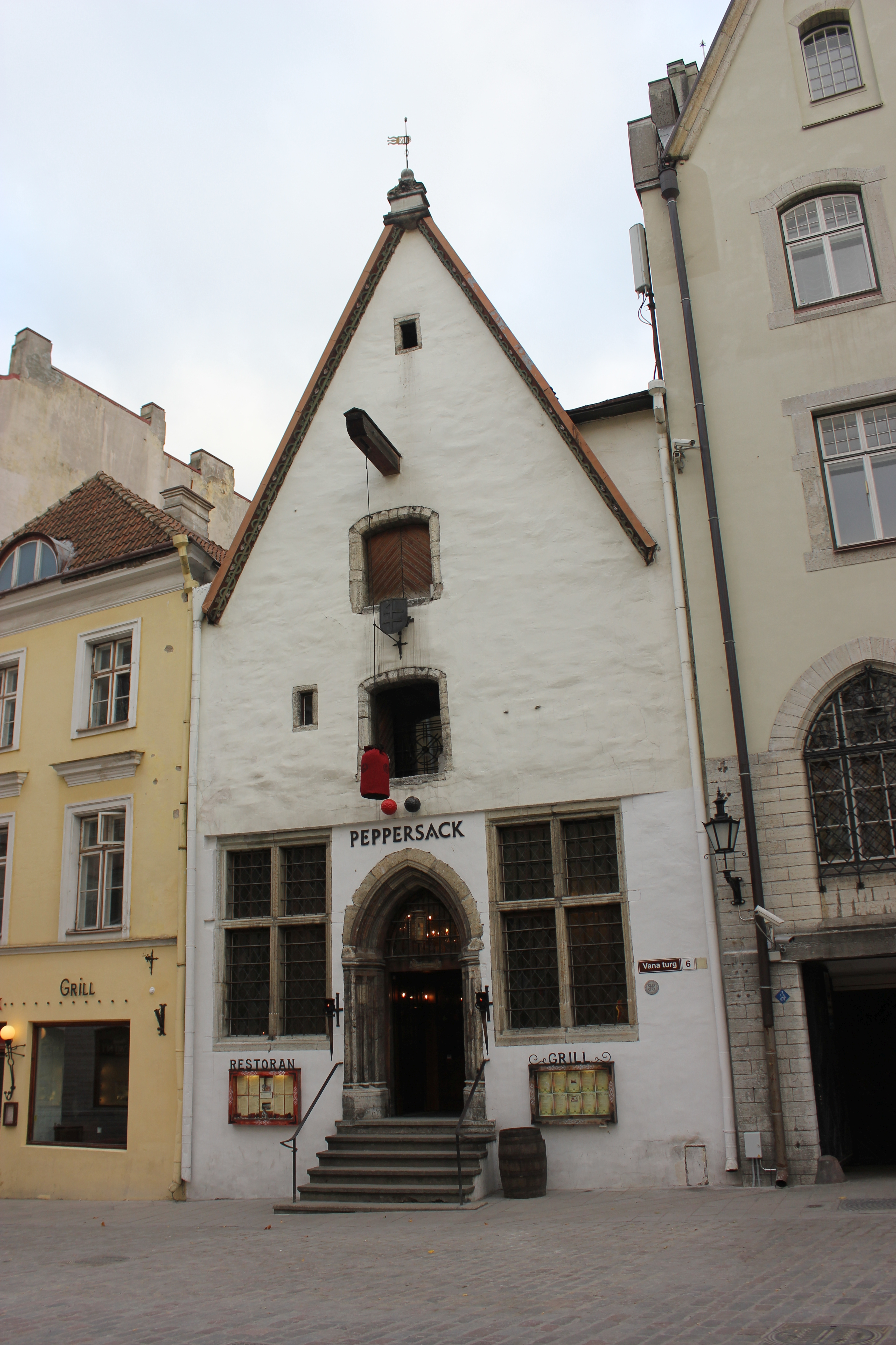 Tallinn - the building at 6 Vana turg/2 Viru